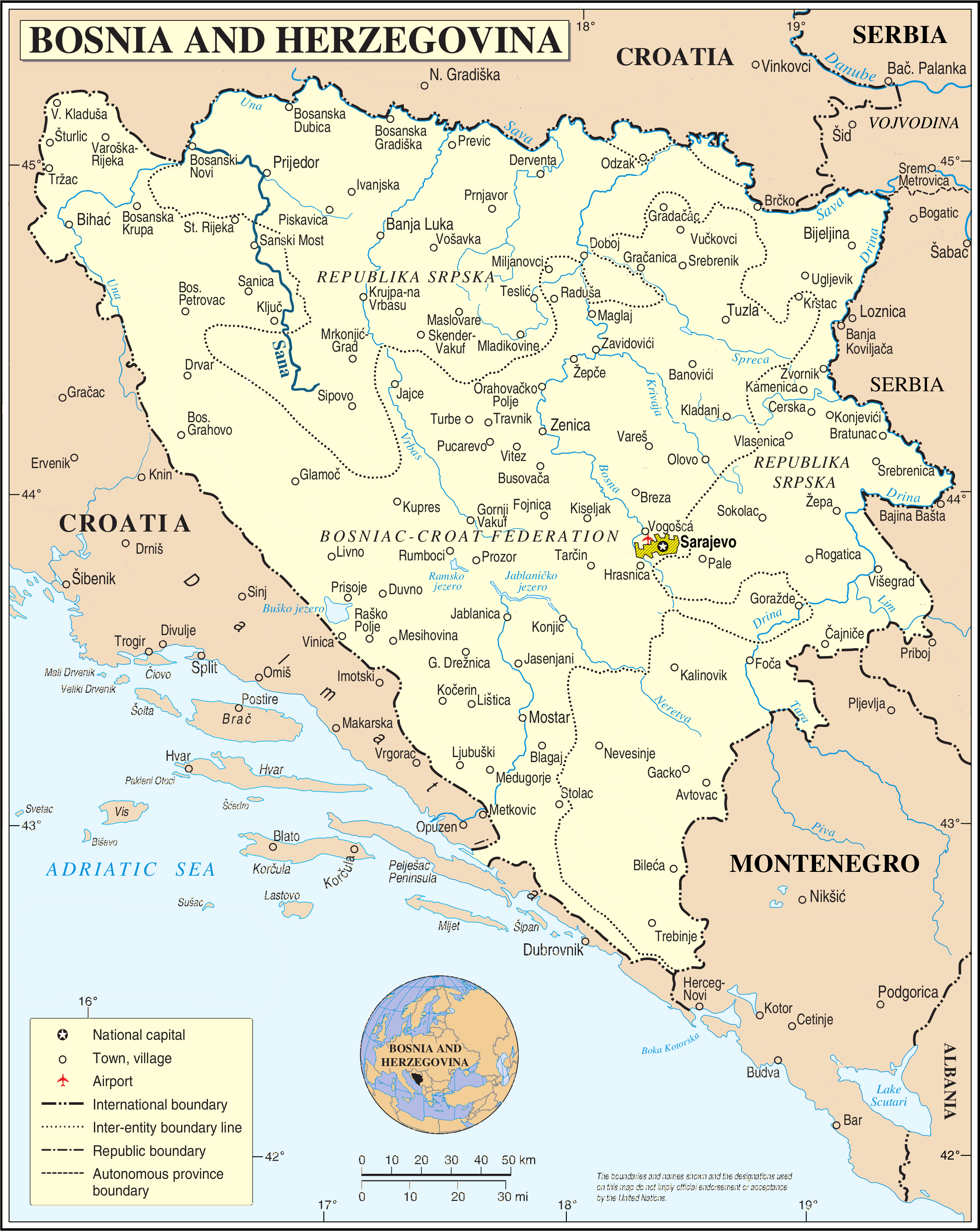 Sana river in Bosnia and Herzegovina (Names of towns as before 1993)